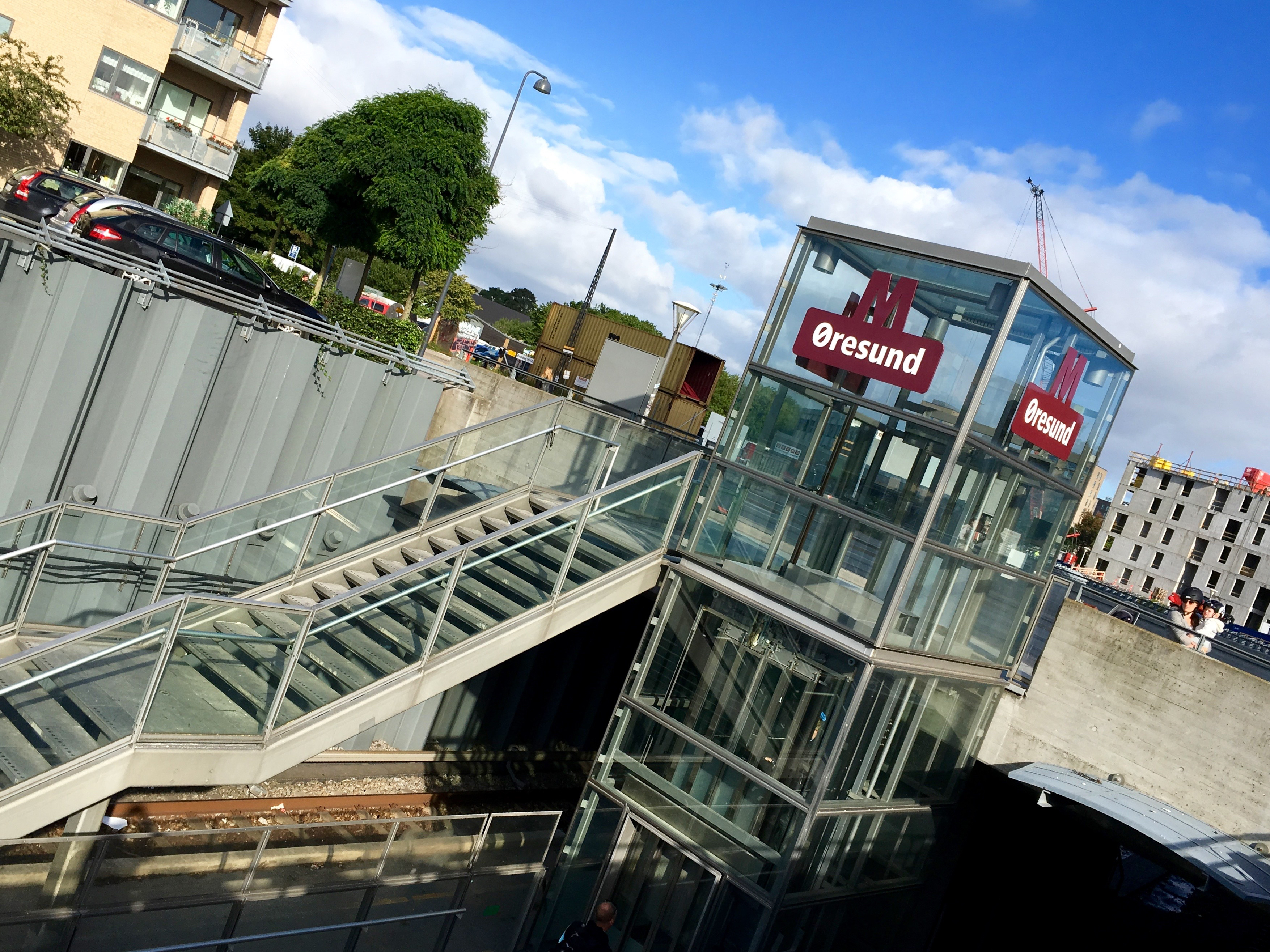 Øresund Metro Station